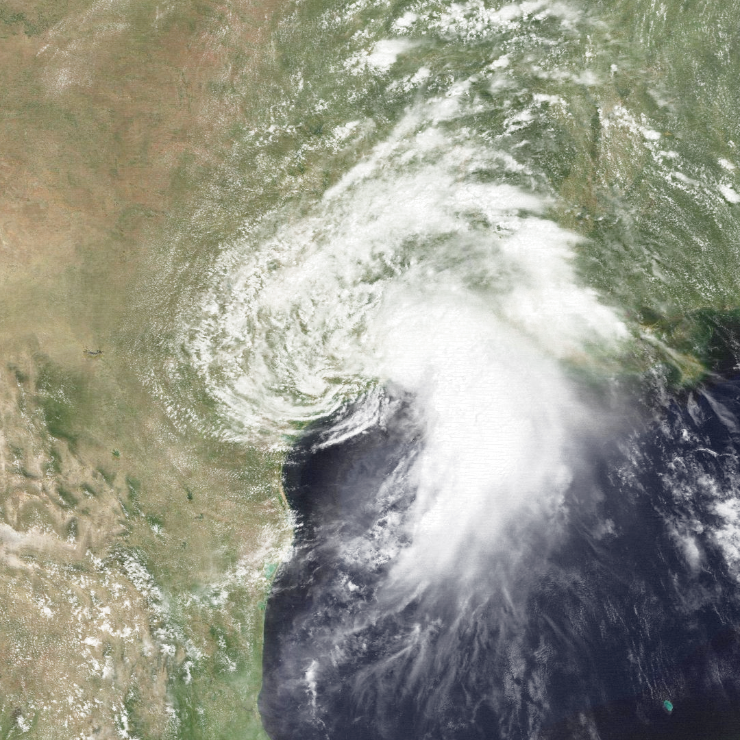 Tropical Storm Allison near peak intensity making landfall in Texas on June 26, 1989